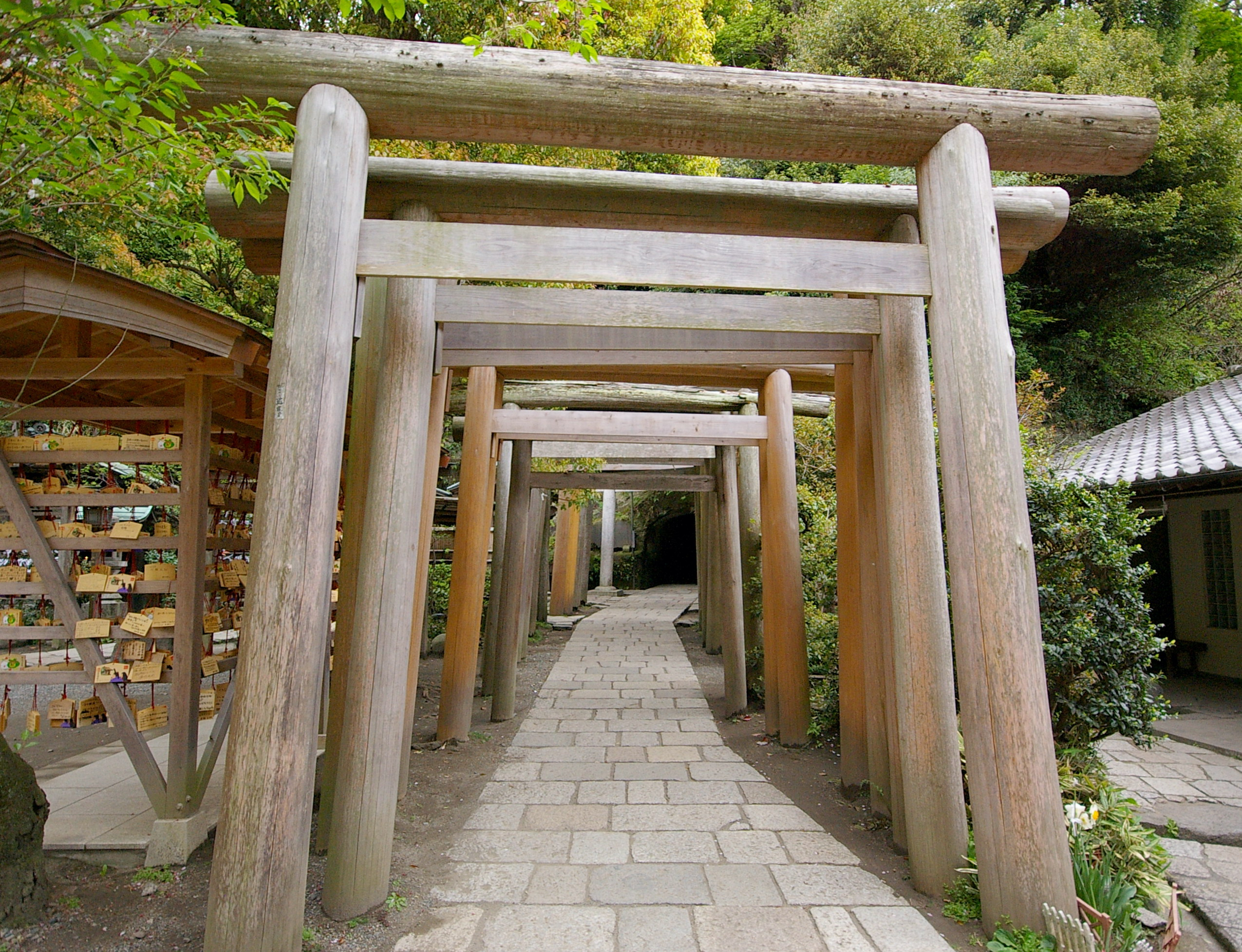 Entrance of Zeniarai Benten shrine